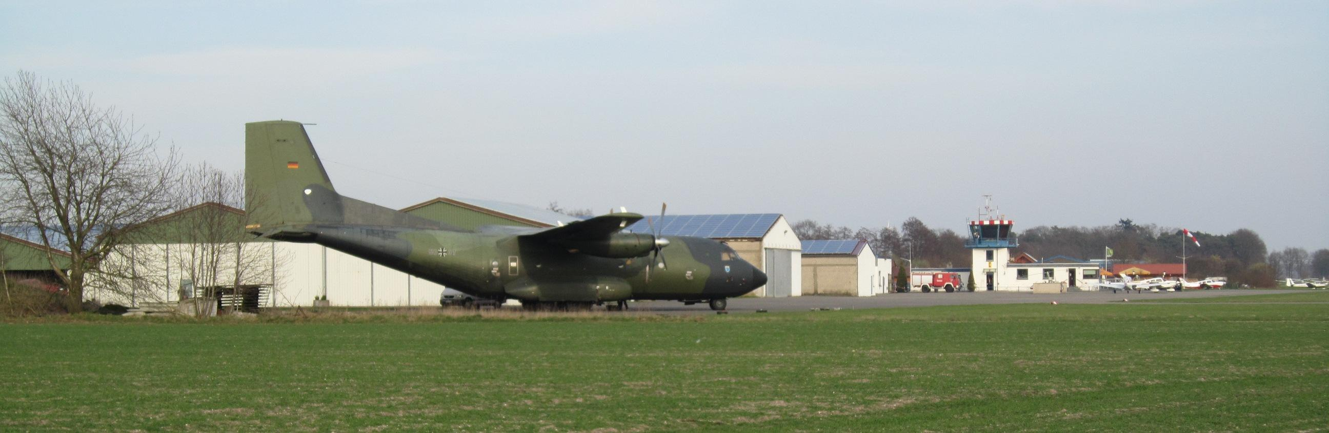 Former Bundeswehr Transall aeroplane at Damme airfield area